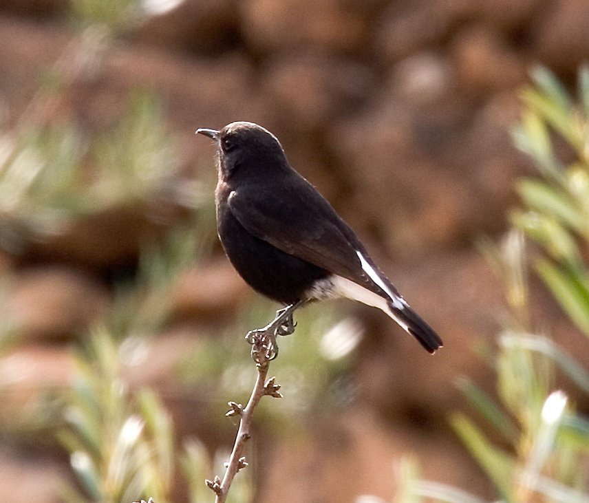 Oenanthe leucura